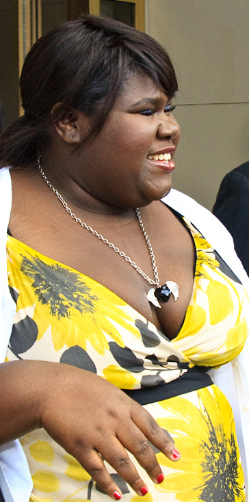 Gabourey Sidibe at the 2009 Toronto International Film Festival